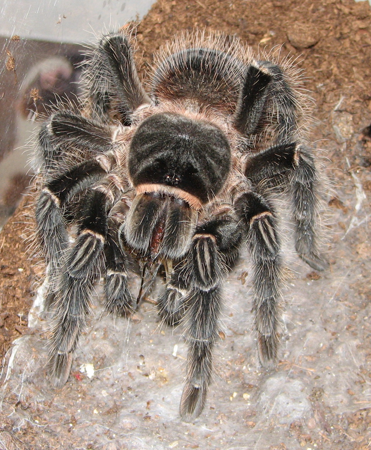 A younf specimen of Lasiodora parahybana, feeding on a couple of crickets